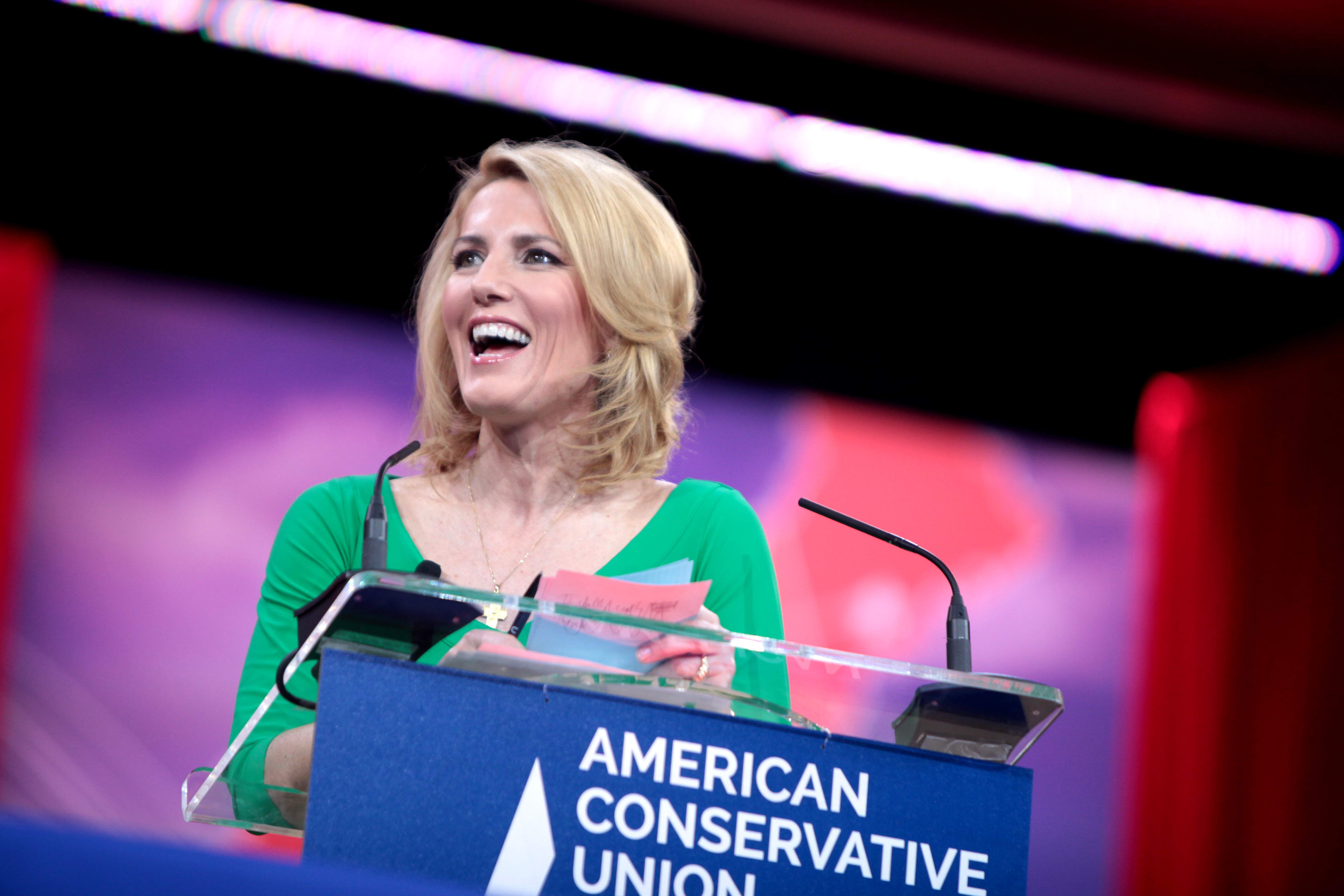 Laura Ingraham at the 2015 Conservative Political Action Conference